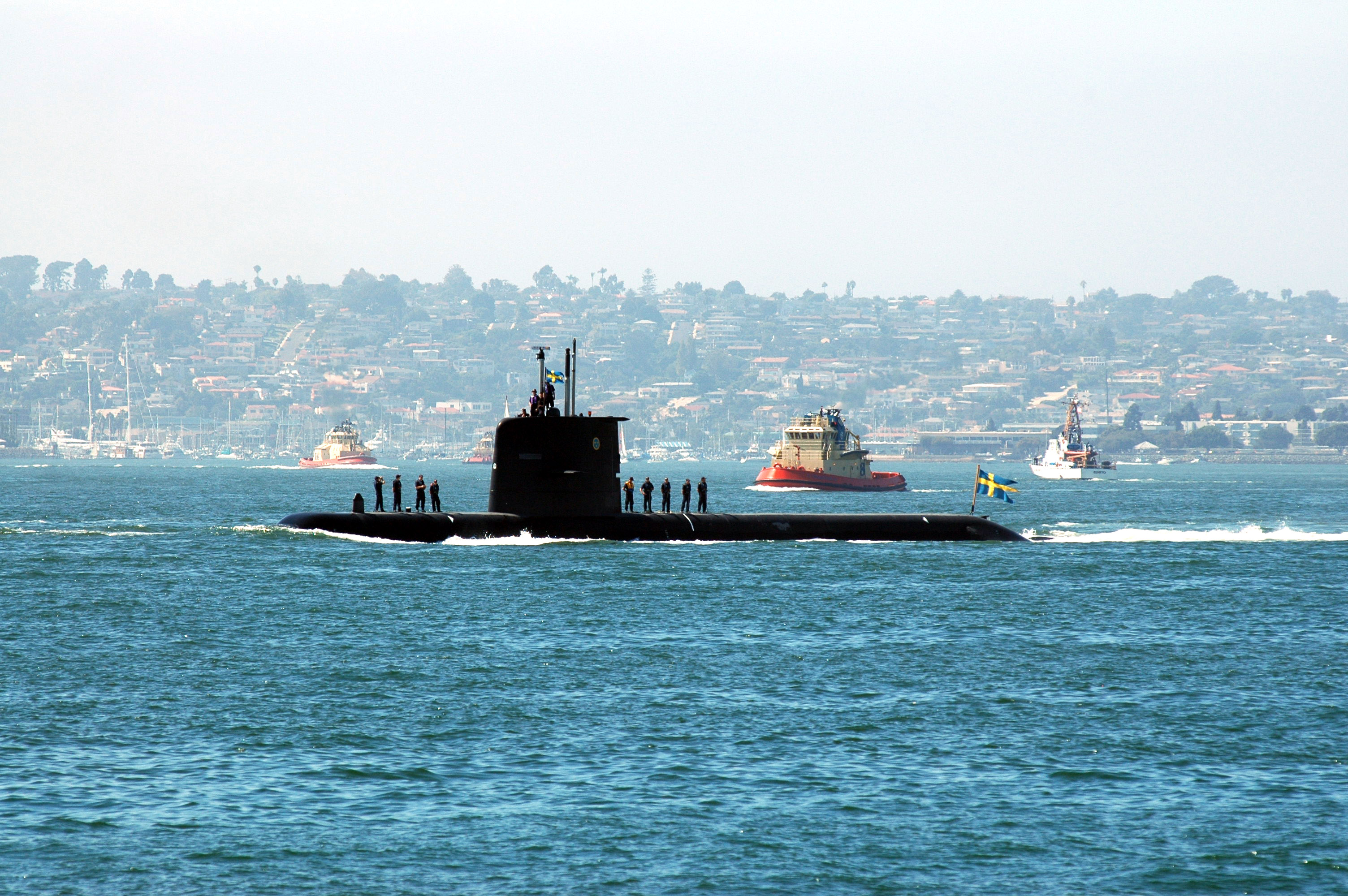 The Swedish diesel-powered attack submarine HMS Gotland transits through San Diego Harbor during the “Sea and Air Parade” held as part of Fleet Week San Diego 2005. Fleet Week San Diego is a three-week tribute to Southern California-area military members and their families.